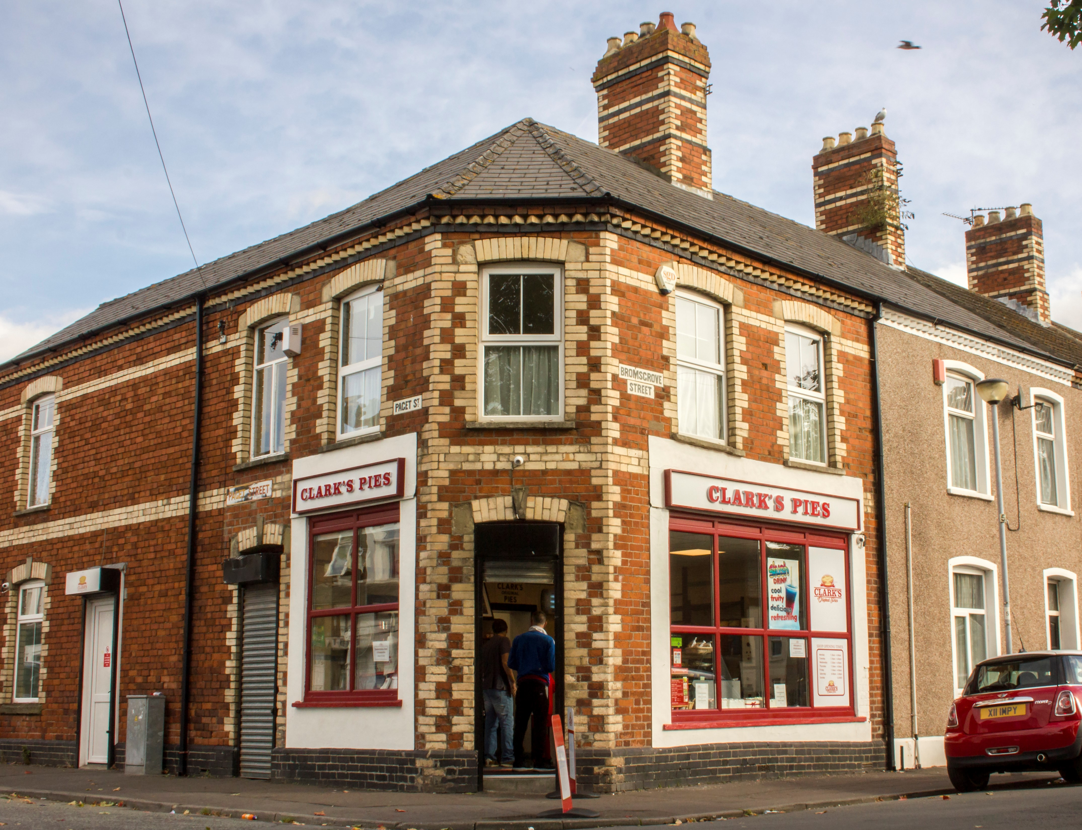 Clark's Pies Shop, Grangetown, Cardiff The last remaining Clark's Pies Shop - located in Grangetown in Cardiff, and which opened in 1955.